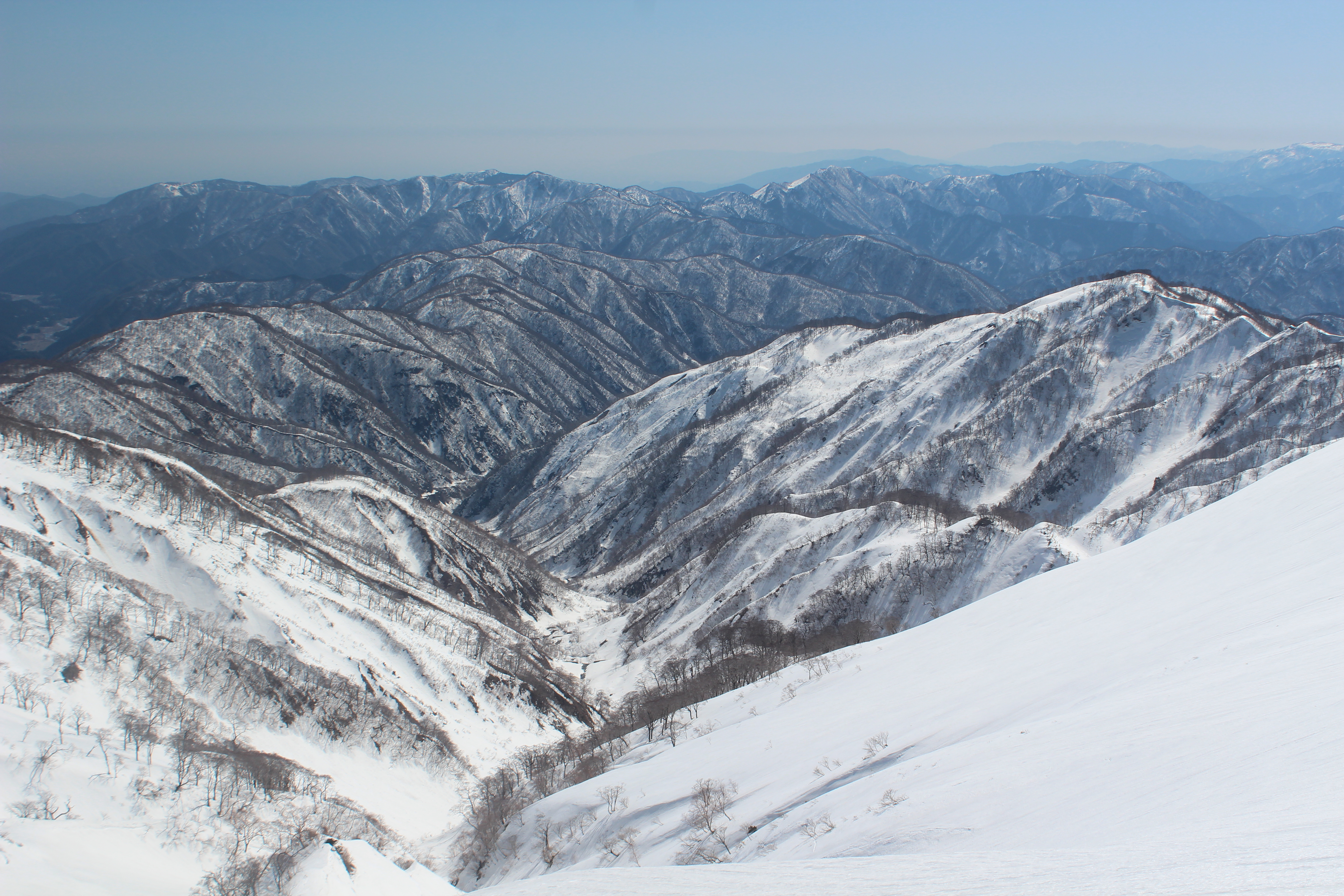 Ozu three Mountains seen from Mount Nogohaku in Ryōhaku Mountains, Japan.